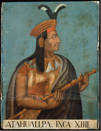 "Atahuallpa, Inca XIIII". Unknown artist from the Cusco School; An anonymous portrait painting of Inca King Atahualpa XIIII; located in Berlin Ethnologisches Museum, Staatliche Museen, Berlin, Germany (Ethnological Museum of Berlin, Germany)